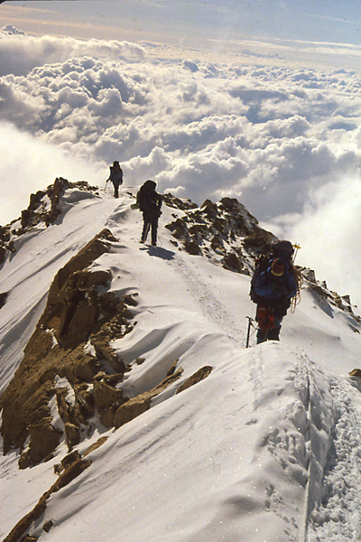 Three women on the Woodswomen climb of Denali, near the summit